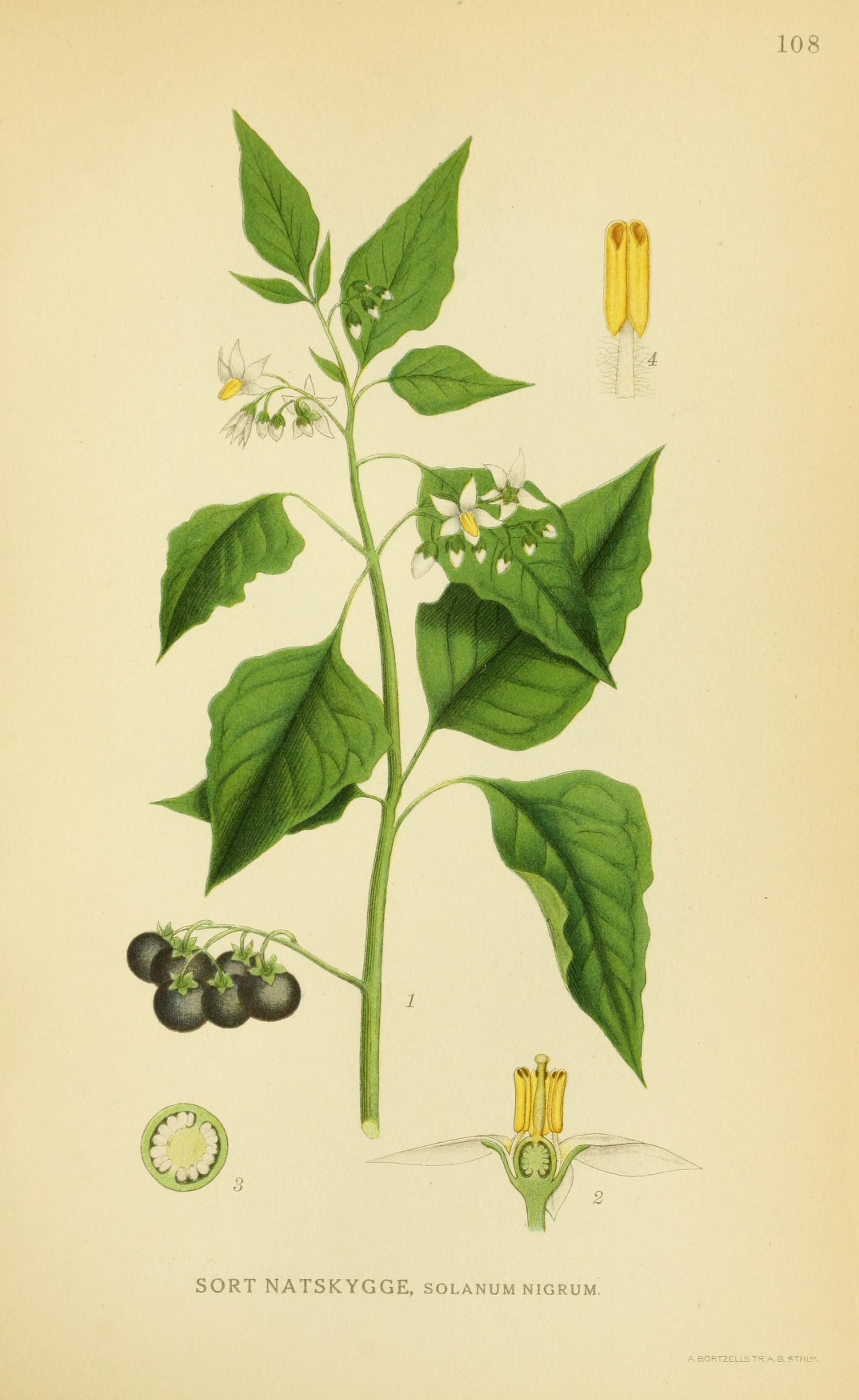 Title: Billeder af nordens flora Year: 1917 (1910s) Authors: Mentz, August, 1867-1944 Ostenfeld, C. H. (Carl Hansen), 1873-1931 Subjects: Plants Plants Plants Publisher: København, G.E.C. Gad's forlag Text Appearing Before Image: JAK03SSTIGE, polemonium coeruleum. :^S2ELCS i ». a STHU?\ 108 Text Appearing After Image: SORT NATSKYGGE, solanum nigrum. k.eORTZELLST 109